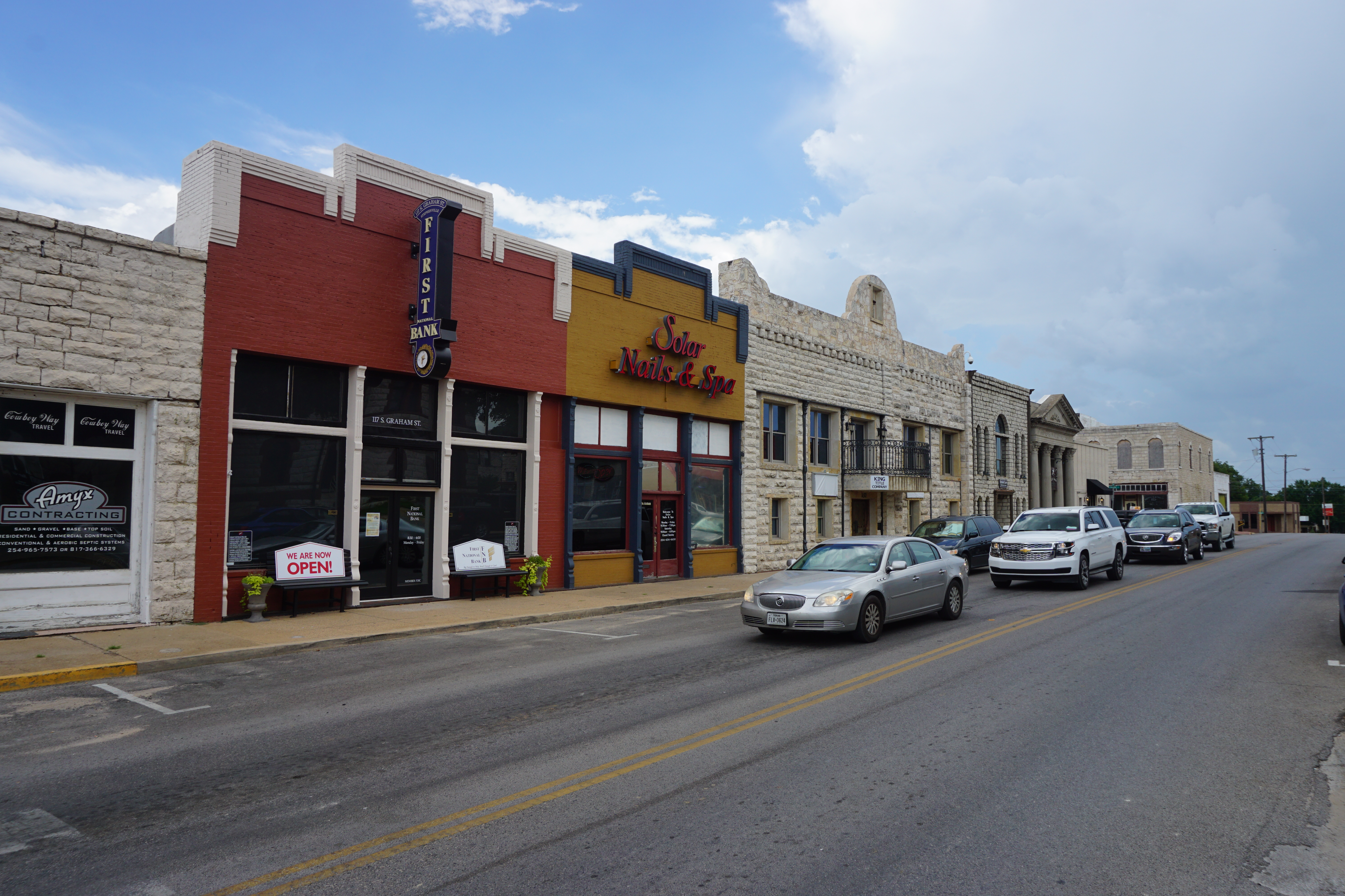 South Graham Avenue in Stephenville, Texas (United States).